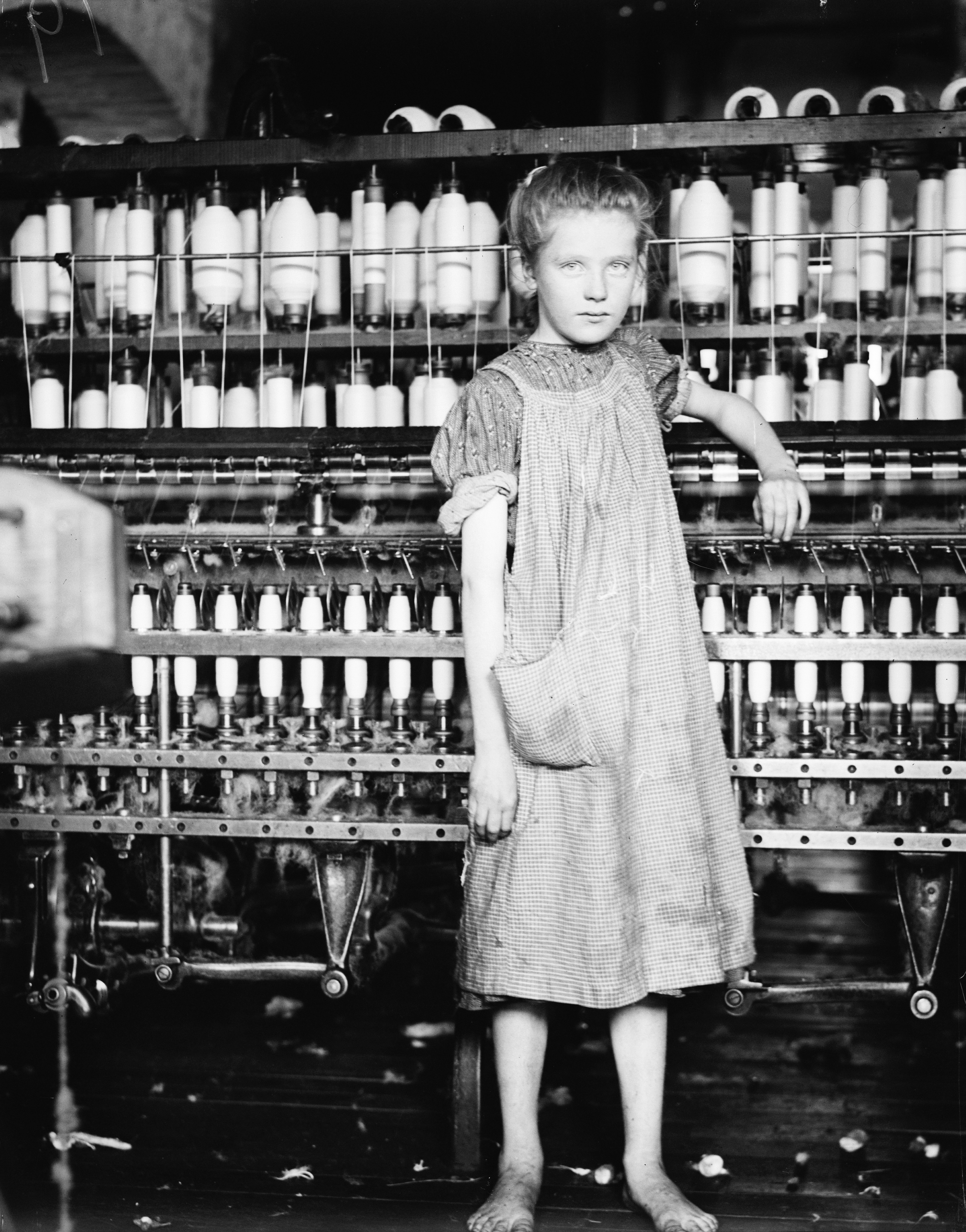 TITLE: Addie Card, 12 years. Spinner in North Pormal [i.e., Pownal] Cotton Mill. Vt. Girls in mill say she is ten years. She admitted to me she was twelve; that she started during school vacation and now would "stay." E. F. Brown. See Photo #1050. Location: North Pownal, Vermont.